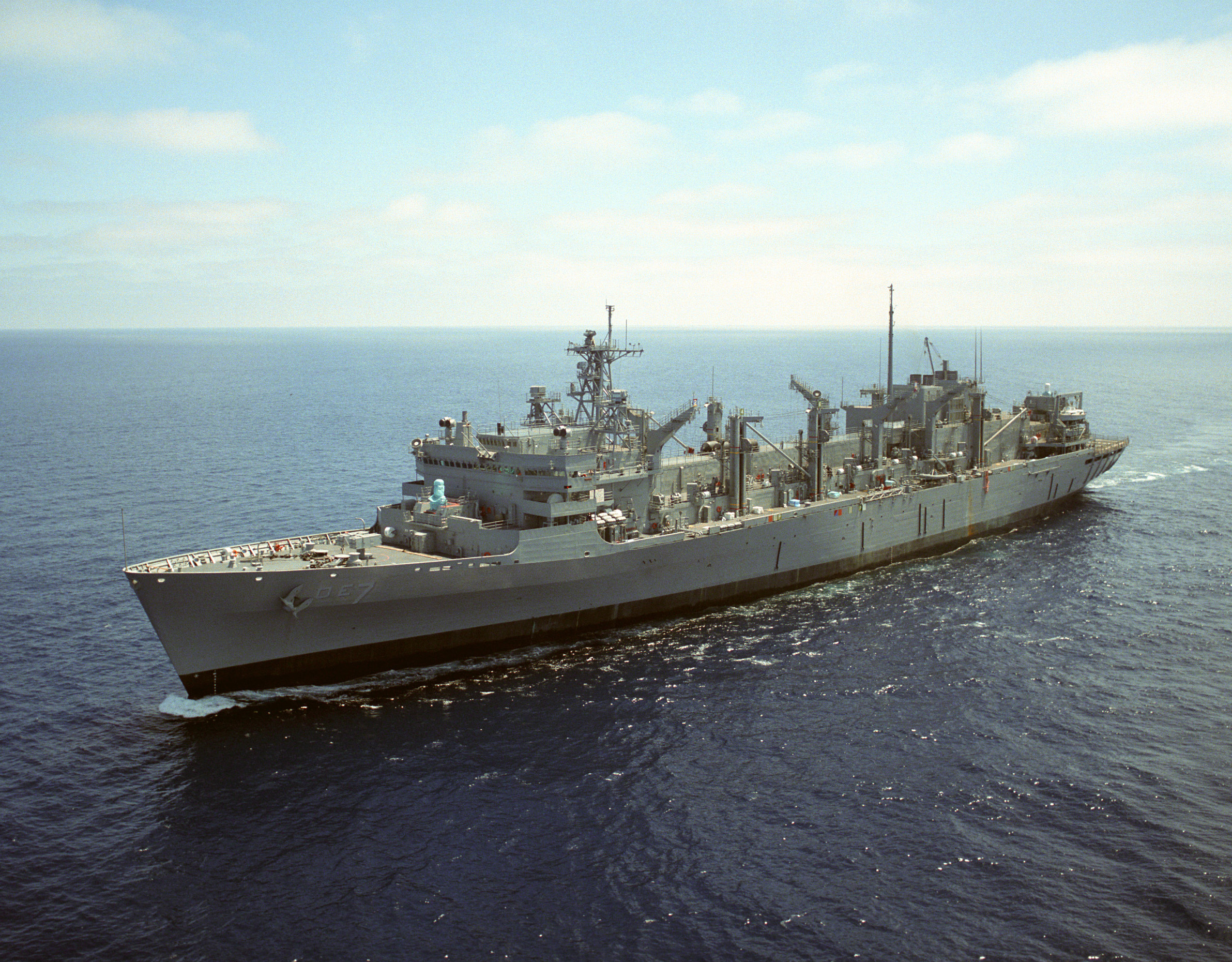 The U.S. Military Sealift Command fast combat support ship USNS Rainier (T-AOE-7) underway on 1 August 2004.